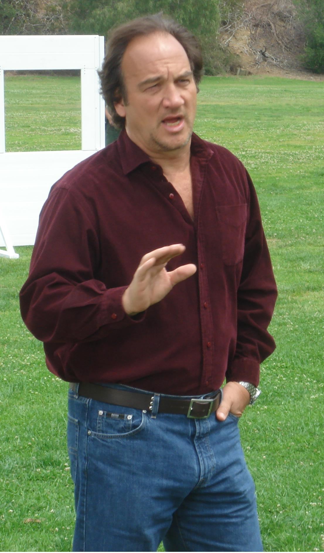 Jim Belushi while working on a shoot for POST K-9.